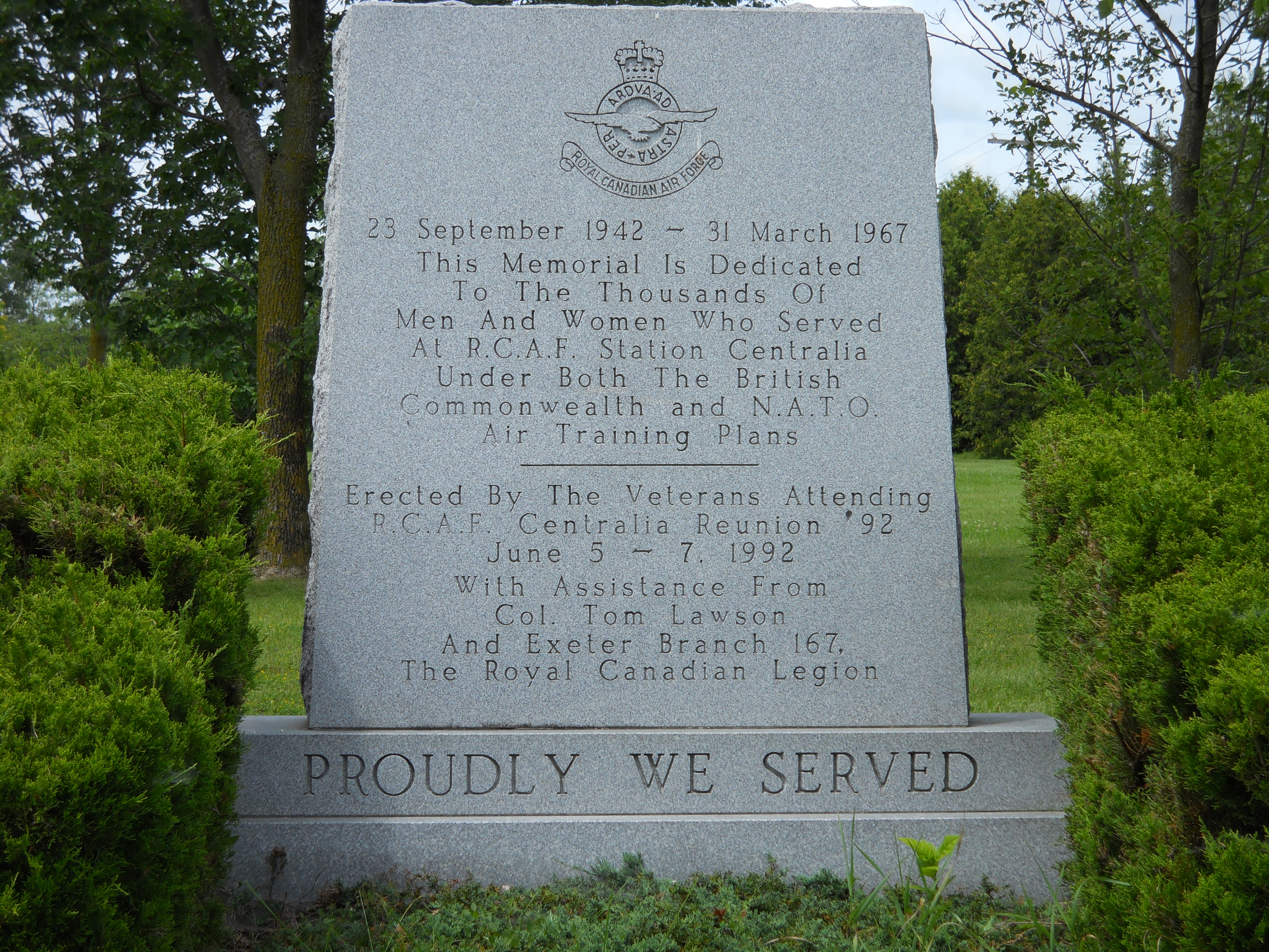 69728A Airport Line, Concessions 2 & 3. North end of Airport property.